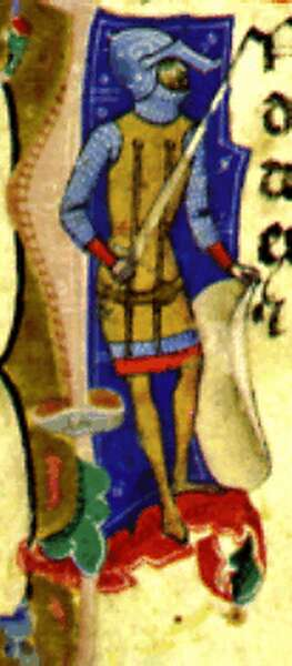 Count Deodatus, godfather of the King Saint Stephen I of Hungary. Image from the Chronicum Pictum.